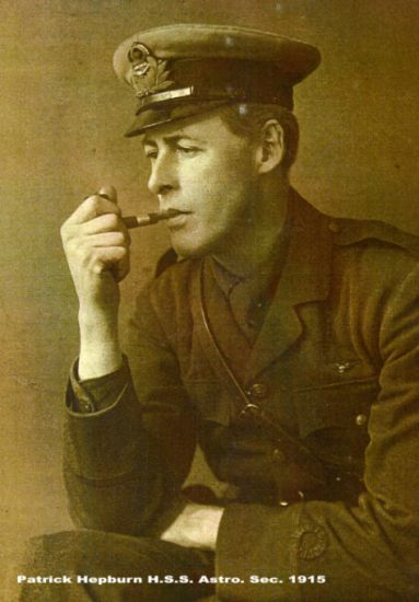 Photo of Patrick Hepburn (HSS Director of Astronomy) in First World War Army uniform.